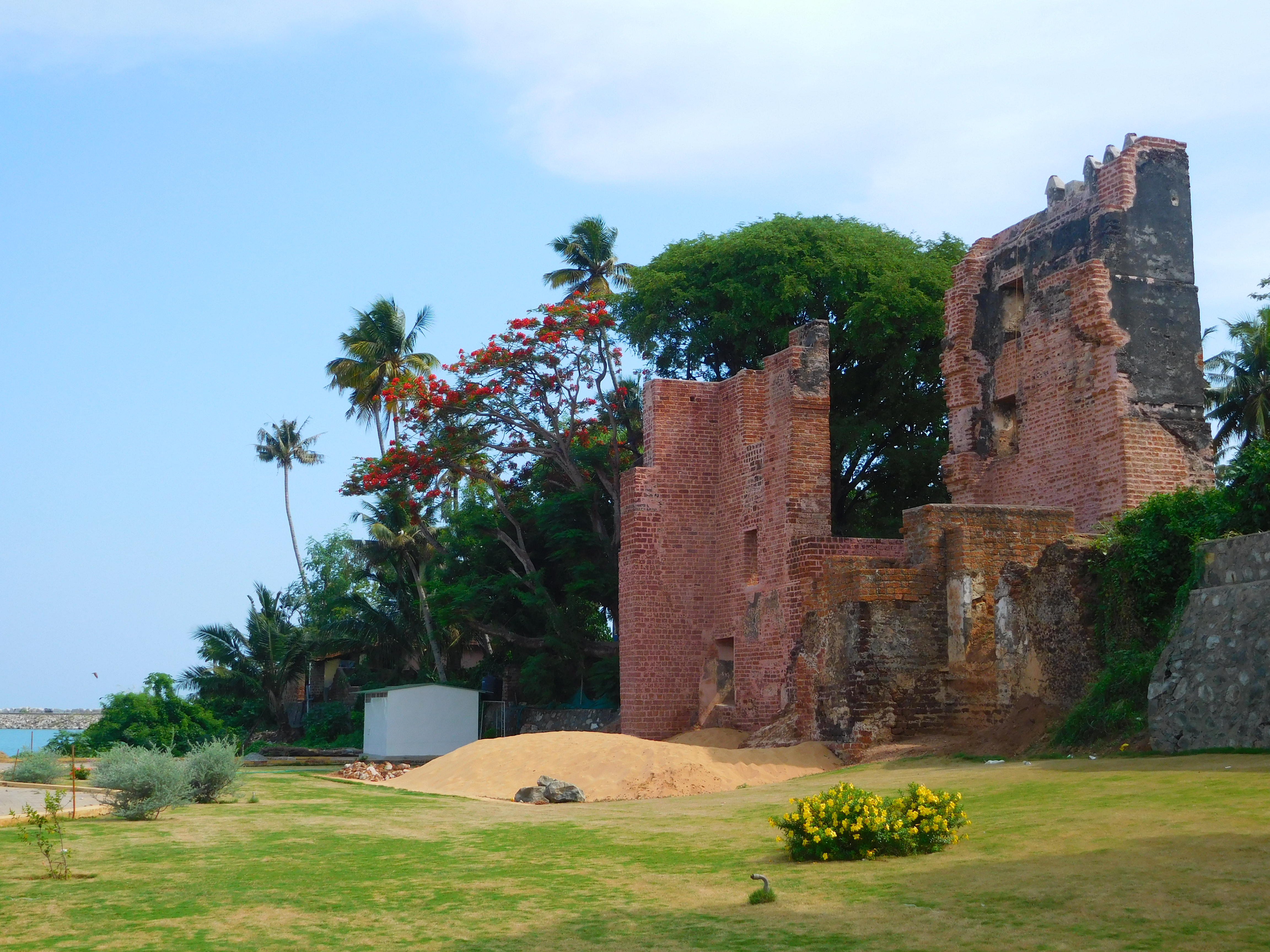 St.Thomas Fort, Thangasseri, Kollam, Kerala, India